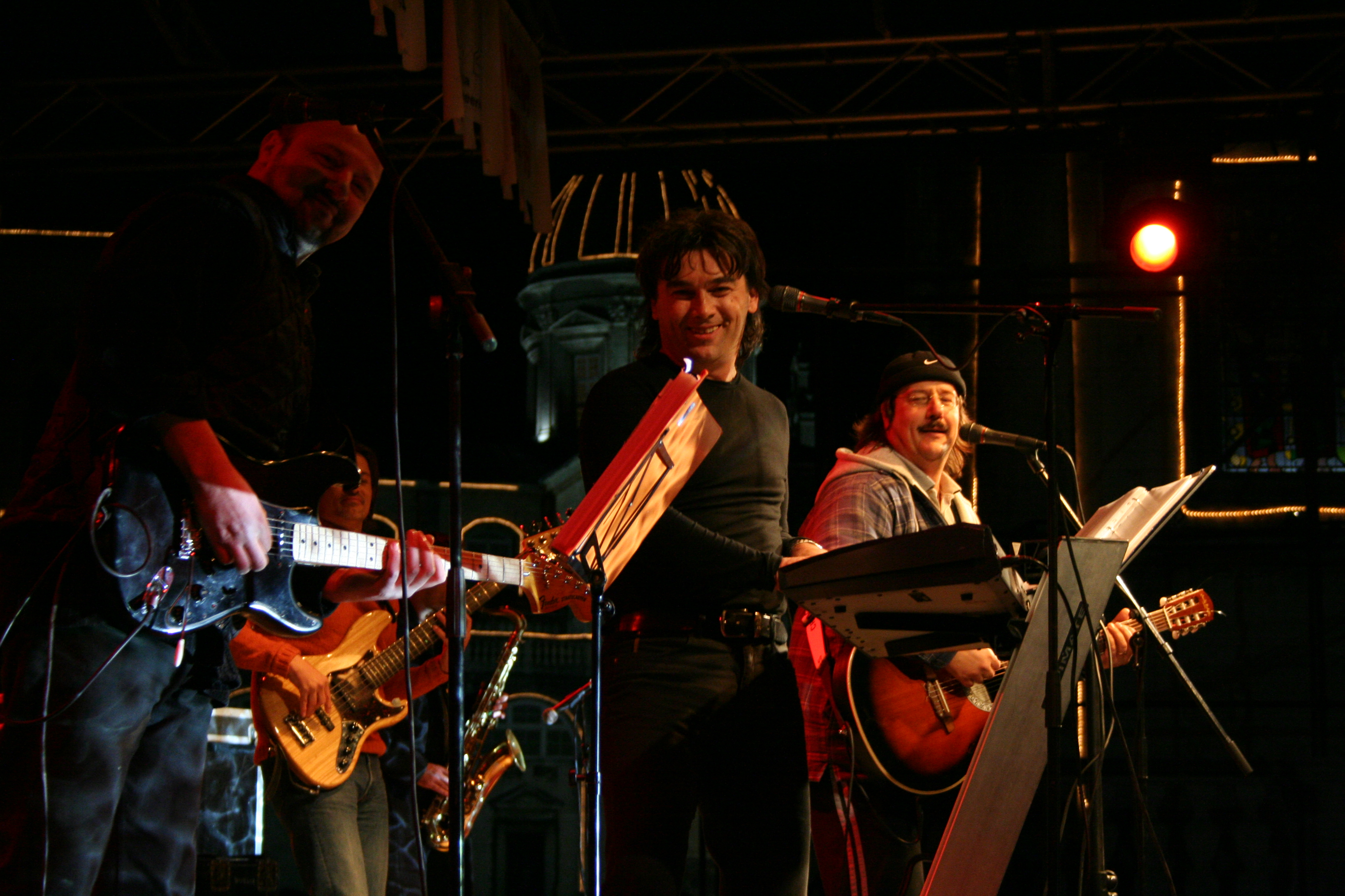 Croatian pop rock band daRiva